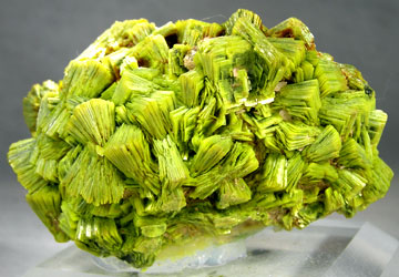 Autunite Locality: Daybreak Mine (Dahl lease), Mount Kit Carson, Spokane County, Washington, USA (Locality at ) Size: small cabinet, 6.4 x 3.7 x 3.8 cm Meta-Autunite This impressive large piece with excellent color is crystallized almost all the way around the specimen, with sharp sheaves of bright yellow-green. It is a SUPER specimen! Pieces in this size range, preserved all this time, are very hard to come by. They generally came out several decades or more ago.